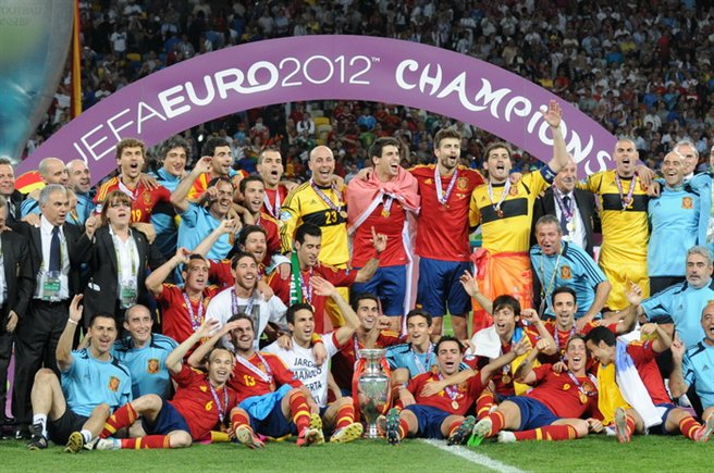 Spain national football team with Euro 2012 trophy